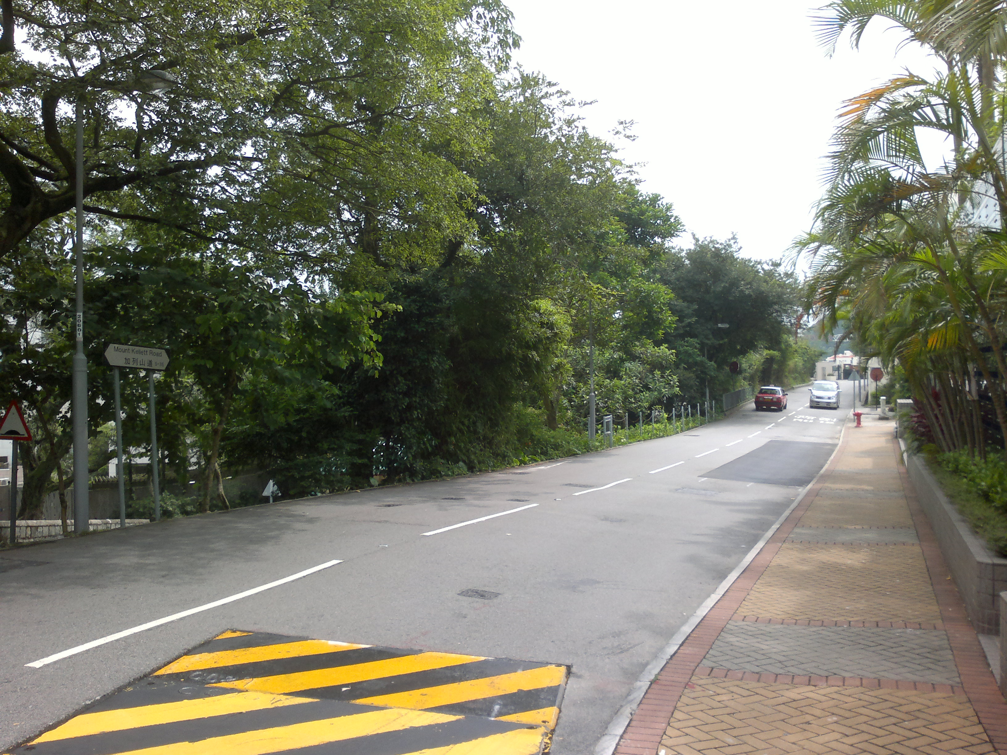 Mount Kellett Road